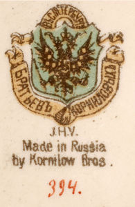 Sample of trade mark of Kornilov Bros porcelain factory of St. Petersburg (XIX - early XX century). Factory is famous not only by its high quality porcelain, highly demanded by collectors, but also by fact factory invented merchadise mark MADE IN RUSSIA for their export products in 1893.